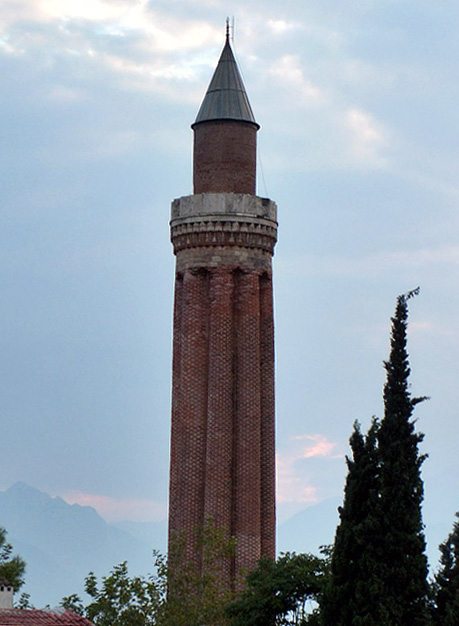 Antalya. Yivli Minare Mosque